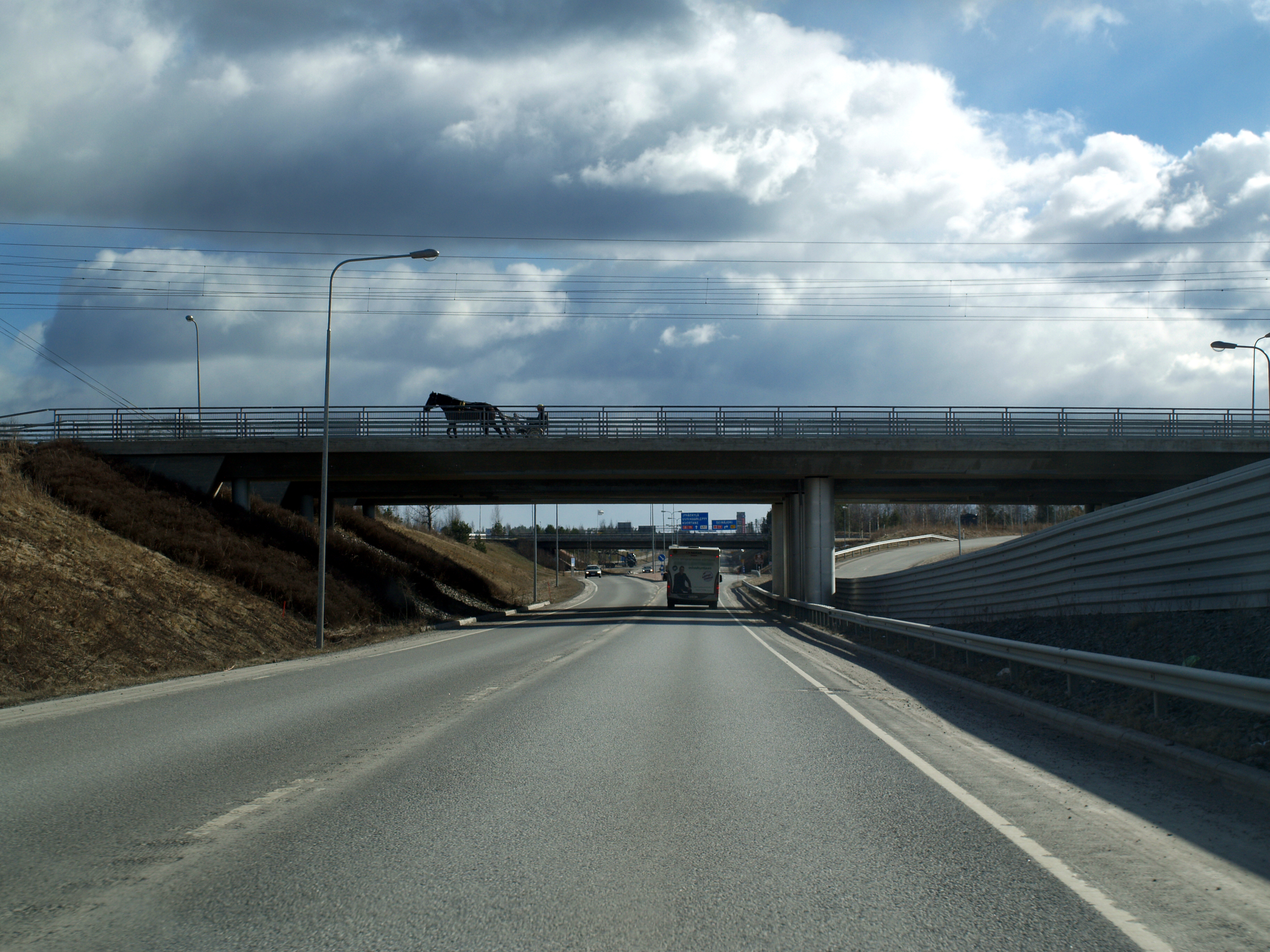 National road 18 in Seinäjoki, Finland.